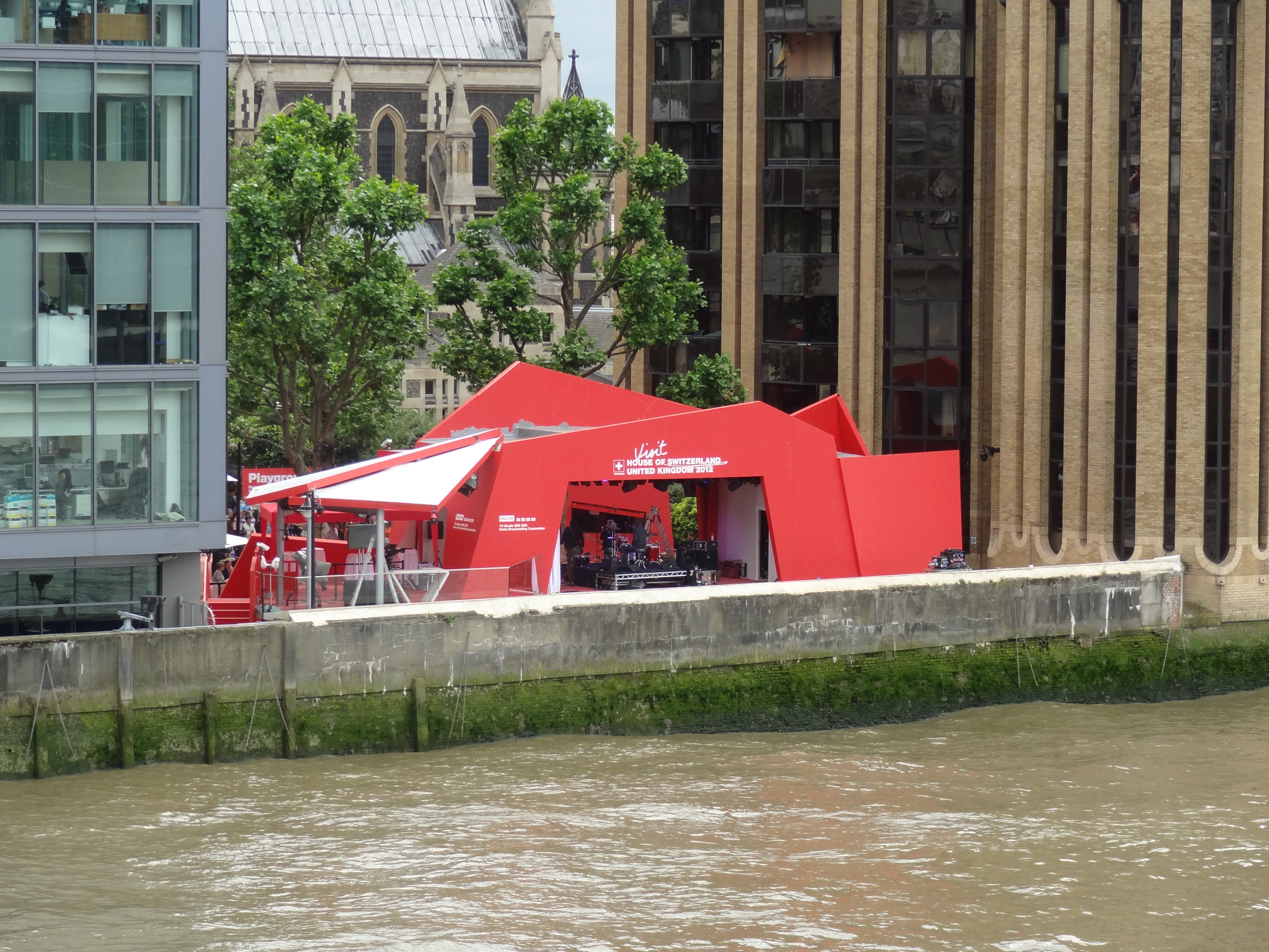 The House of Switzerland seen from the London Bridge during the 2012 Summer Olympics